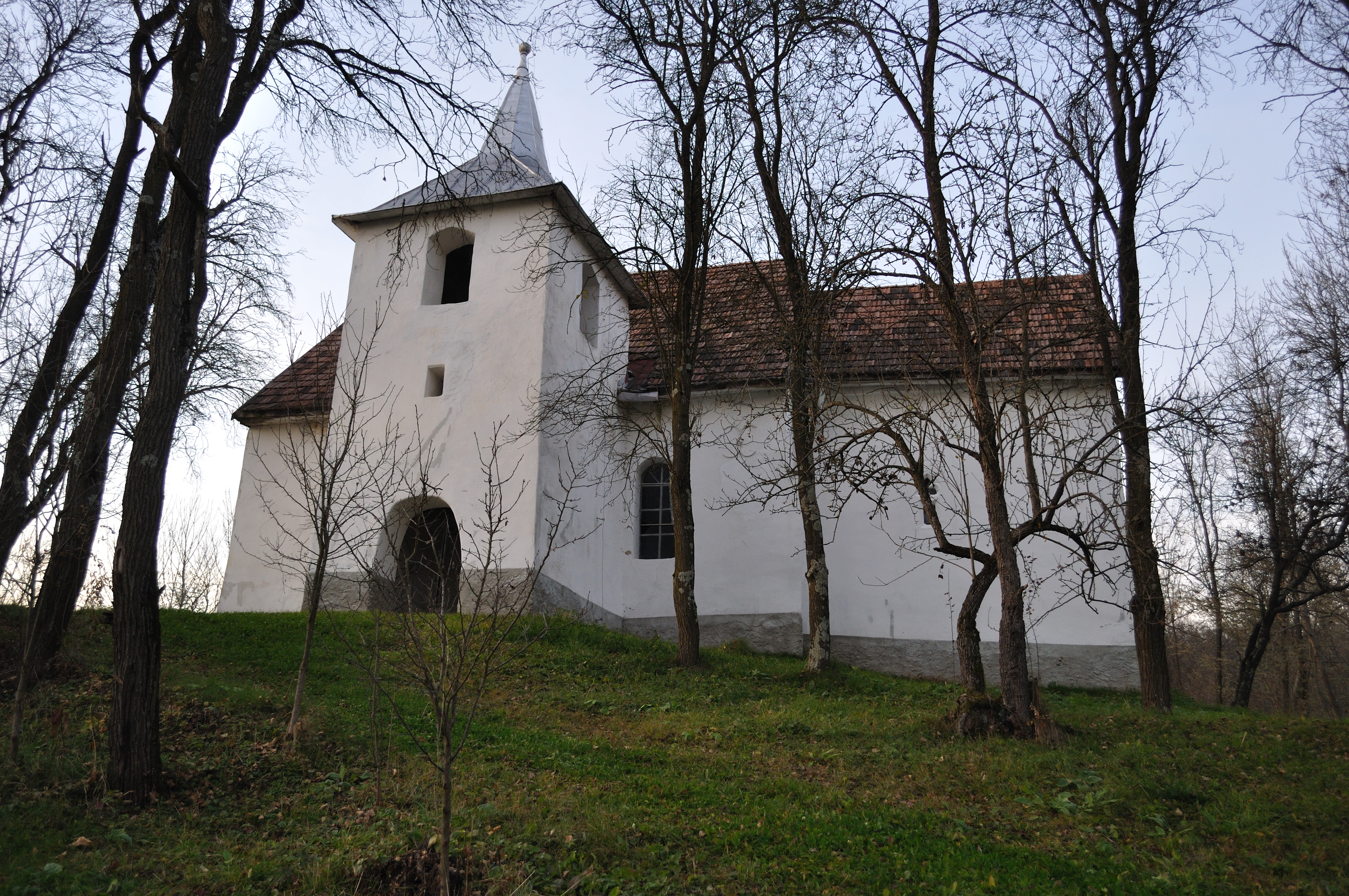 Calvinist church in Tiocu de Sus/Felsőtők, Romania